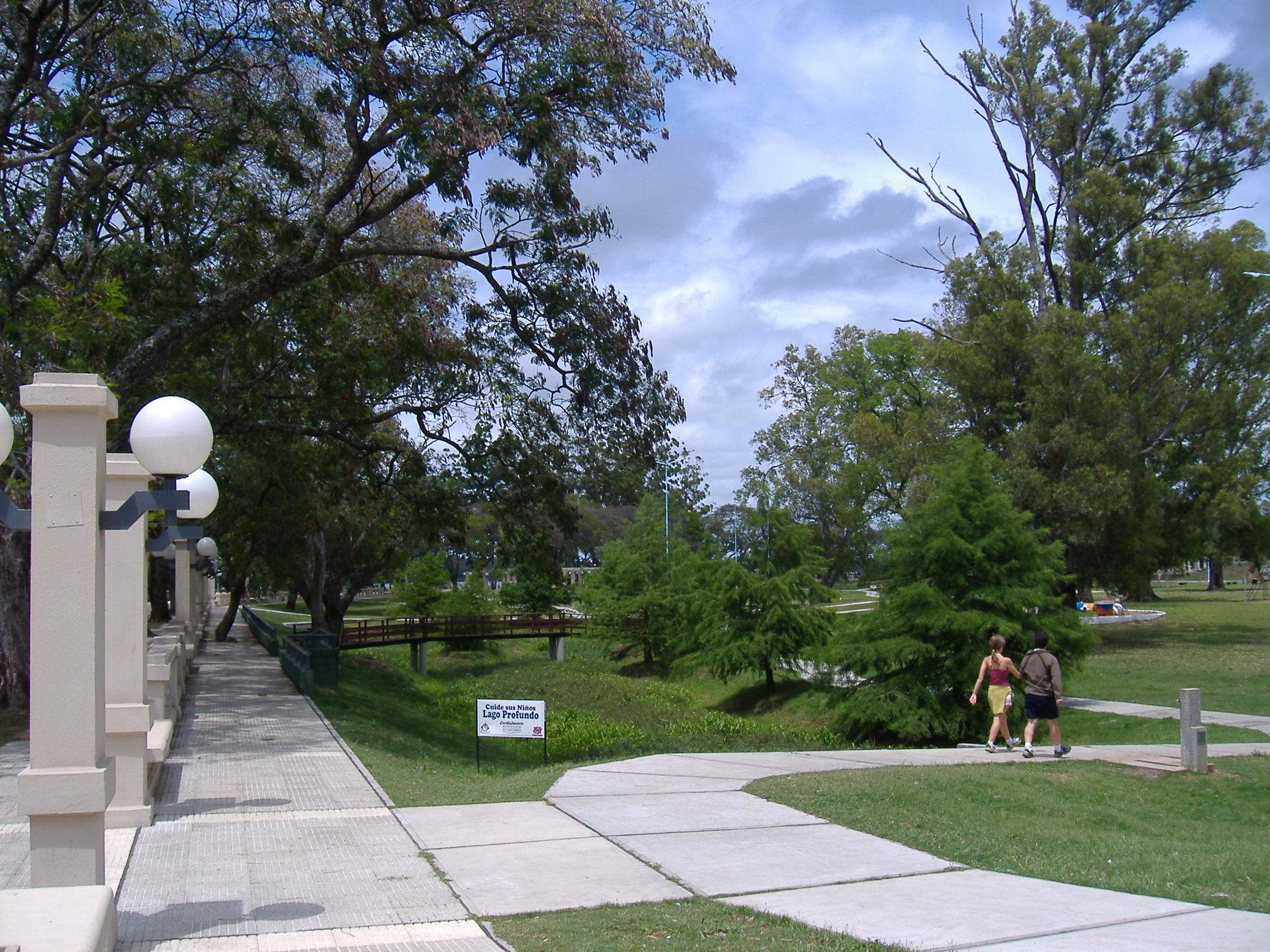 Mitre Park (named after former president of Argentina Bartolomé Mitre) in Concordia, Entre Ríos Province, Argentina.